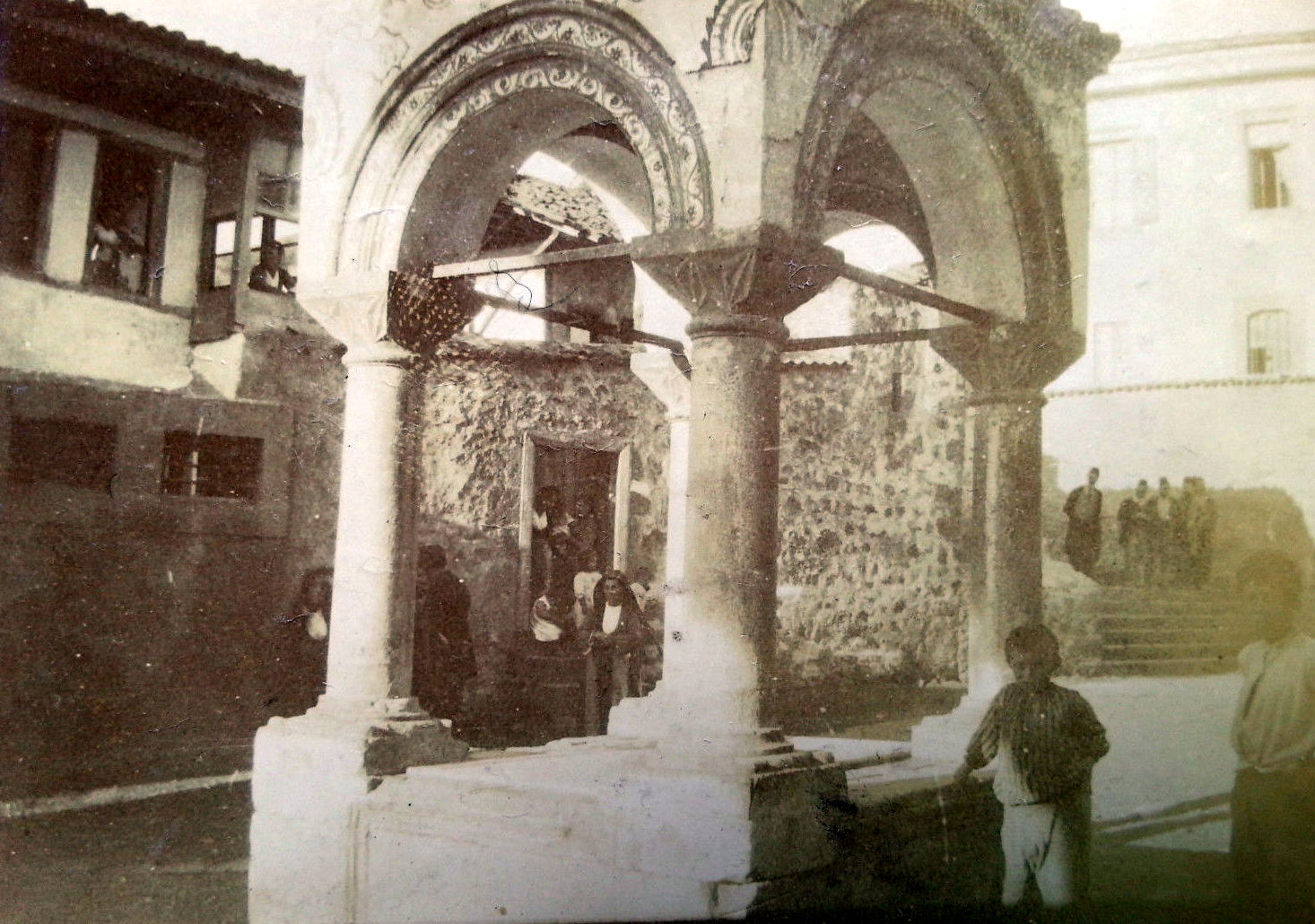 Tomb of Solomon II of Imereti, Trebizond.